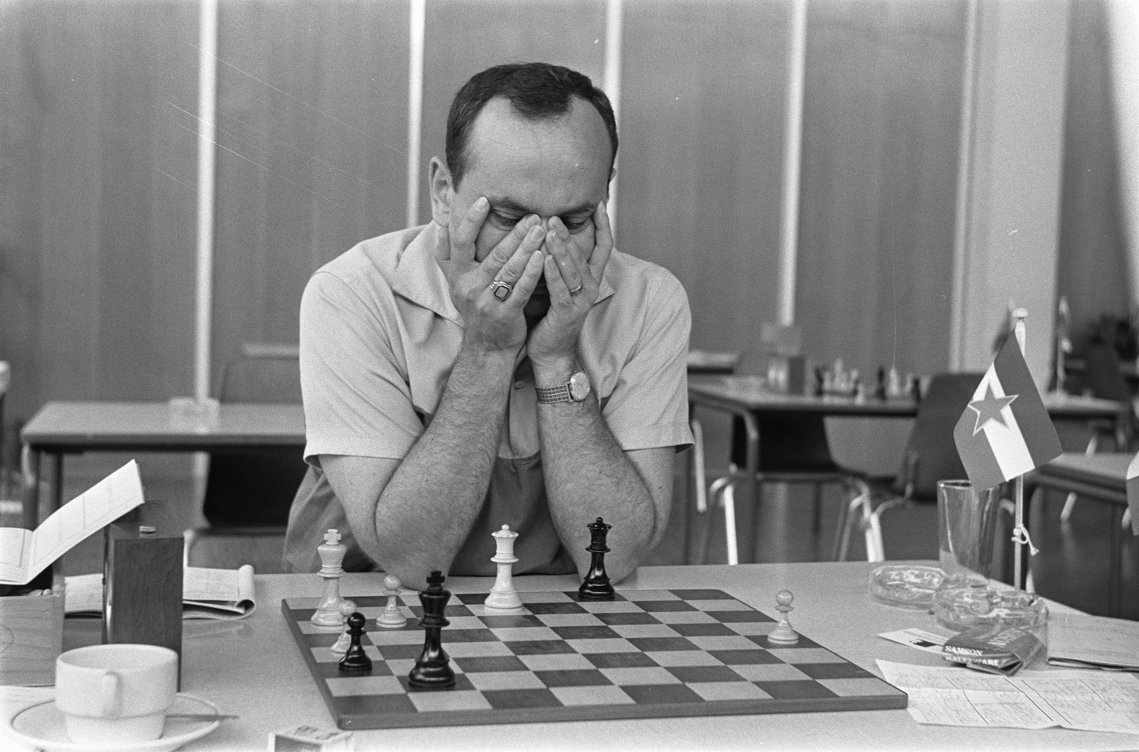 Lajos Portisch, IBM International Chess Tournament, RAI-building, Amsterdam (The Netherlands), 24 July 1969